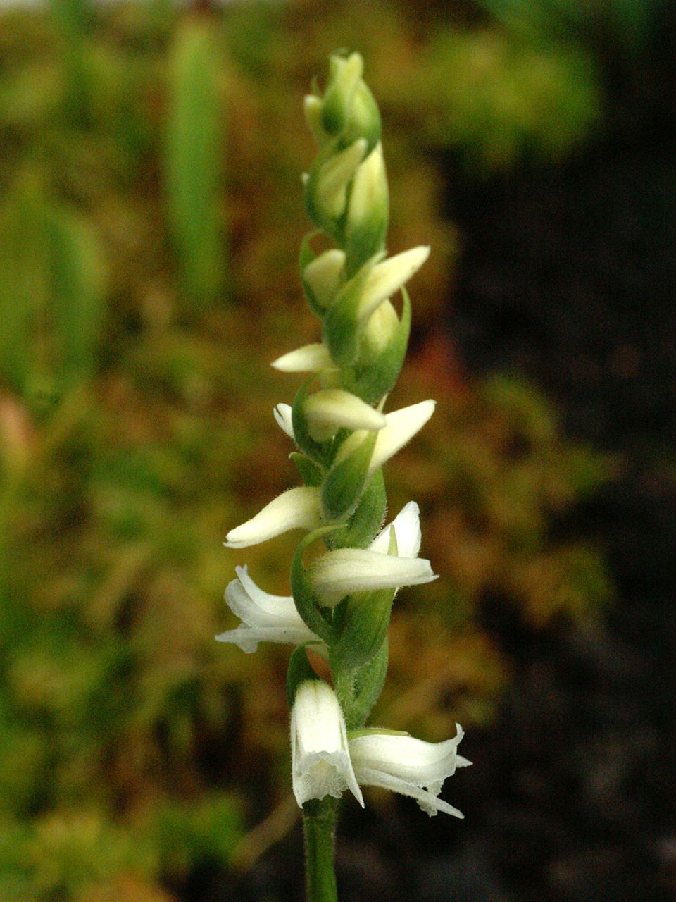 Spiranthes ochroleuca - inflorescence